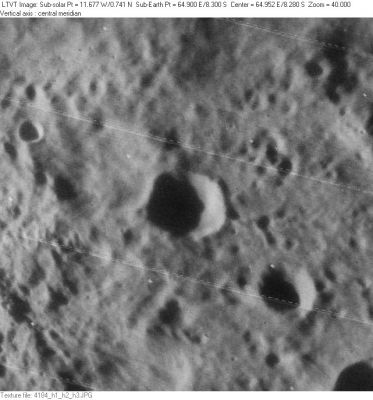 LO-IV-184H Somerville is in the center. The faint 23-km crater touching it on the northwest is Langrenus H with little Langrenus R beyond that. To the southeast of Somerville is 12-km Langrenus N and a tiny glimpse of the shadow-casting rim of Langrenus M in the extreme lower right.